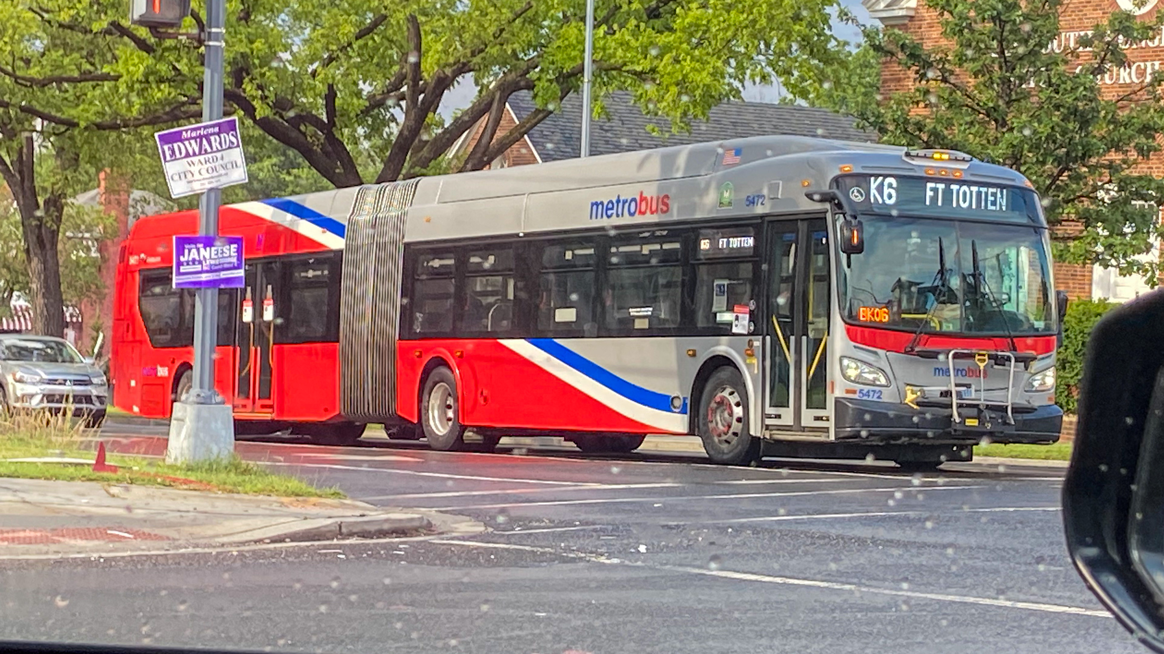 A New Flyer XDE60 on the K6 along North Capital Street heading to Fort Totten